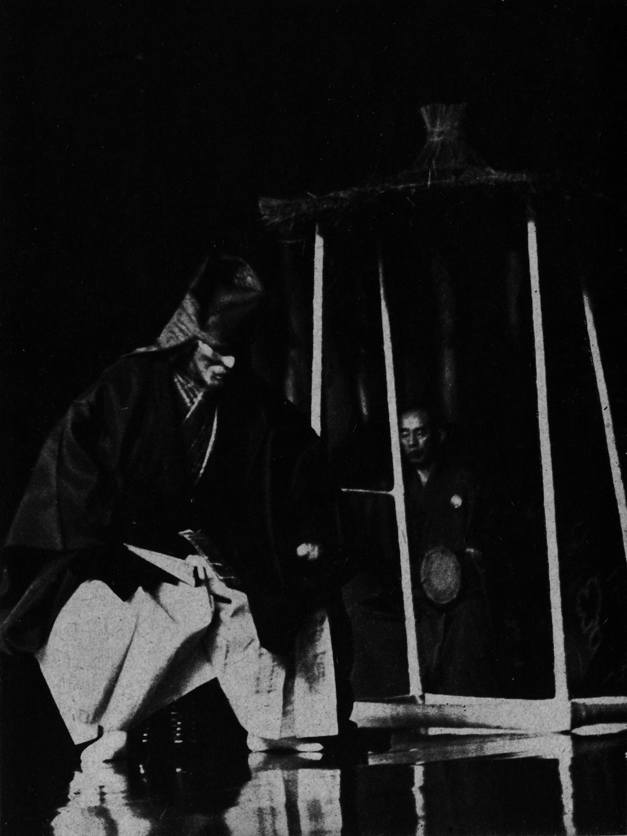 stage photo: Noh play Kagekiyo, KONPARU Eijiro